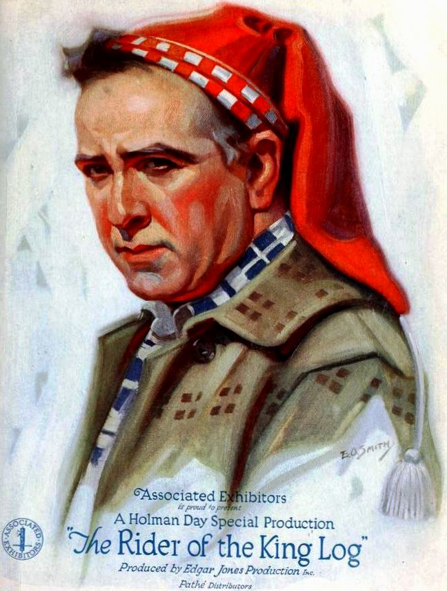 Advertisement for the American drama film The Rider of the King Log (1921) with Frank Sheridan, facing page 12 of the May 22, 1921 Film Daily.